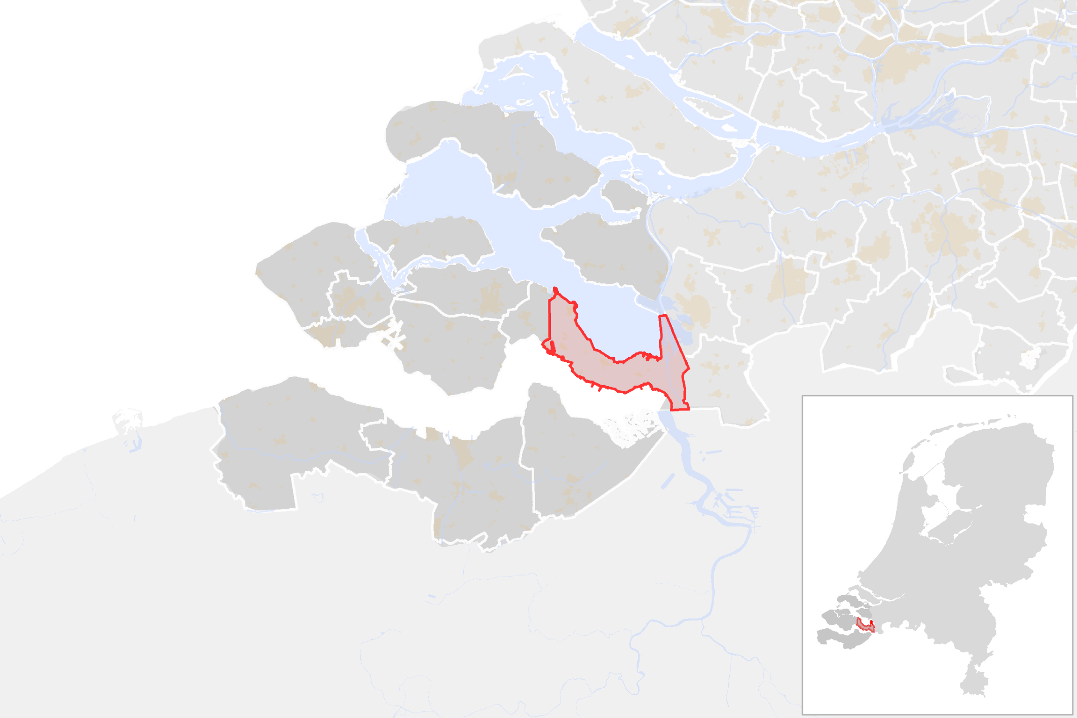 Locator map showing municipality boundary of one of the 390 Dutch municipalities (as of 2016)